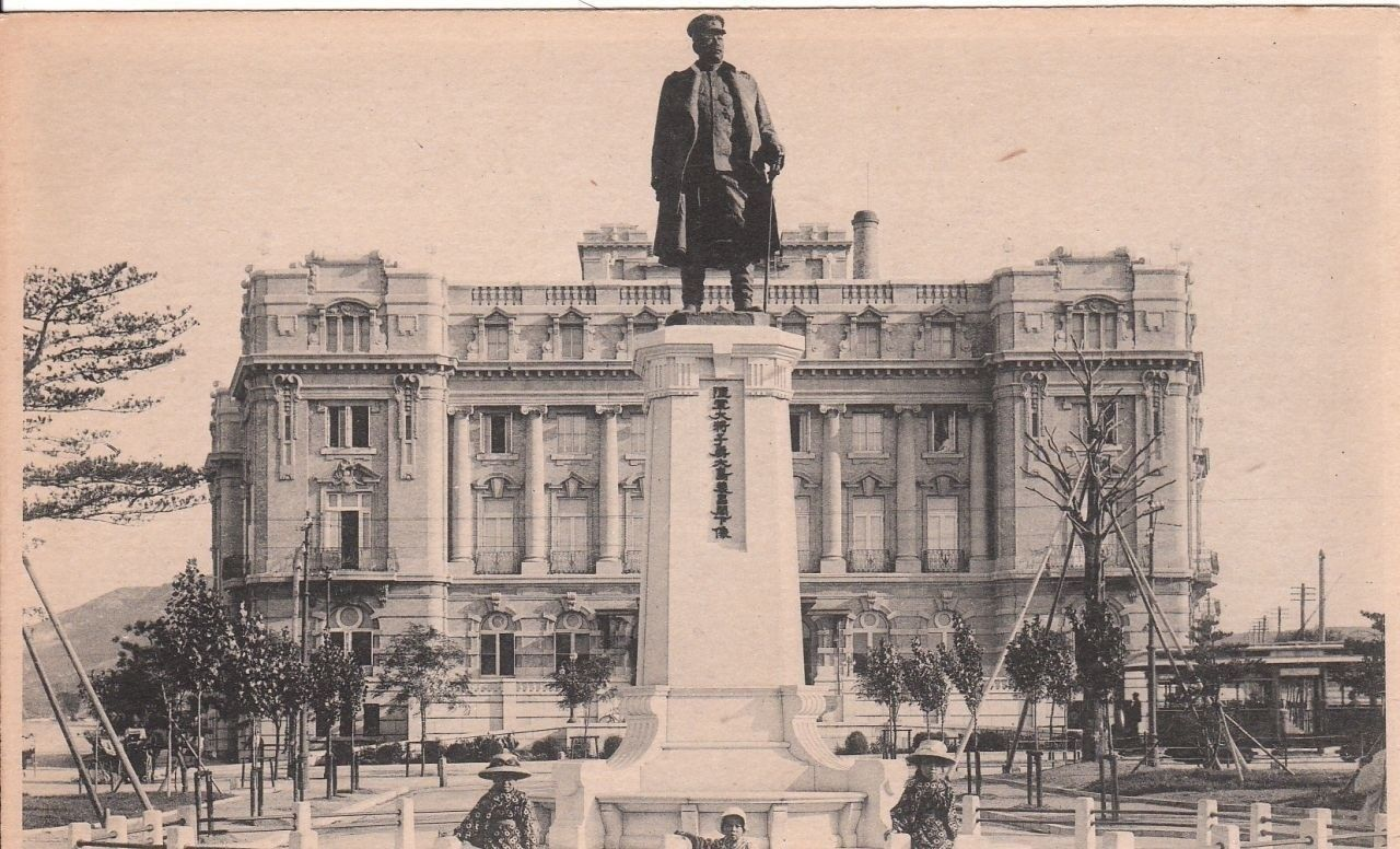 Antique Postcard Statue General Ohsmima, Daln, China